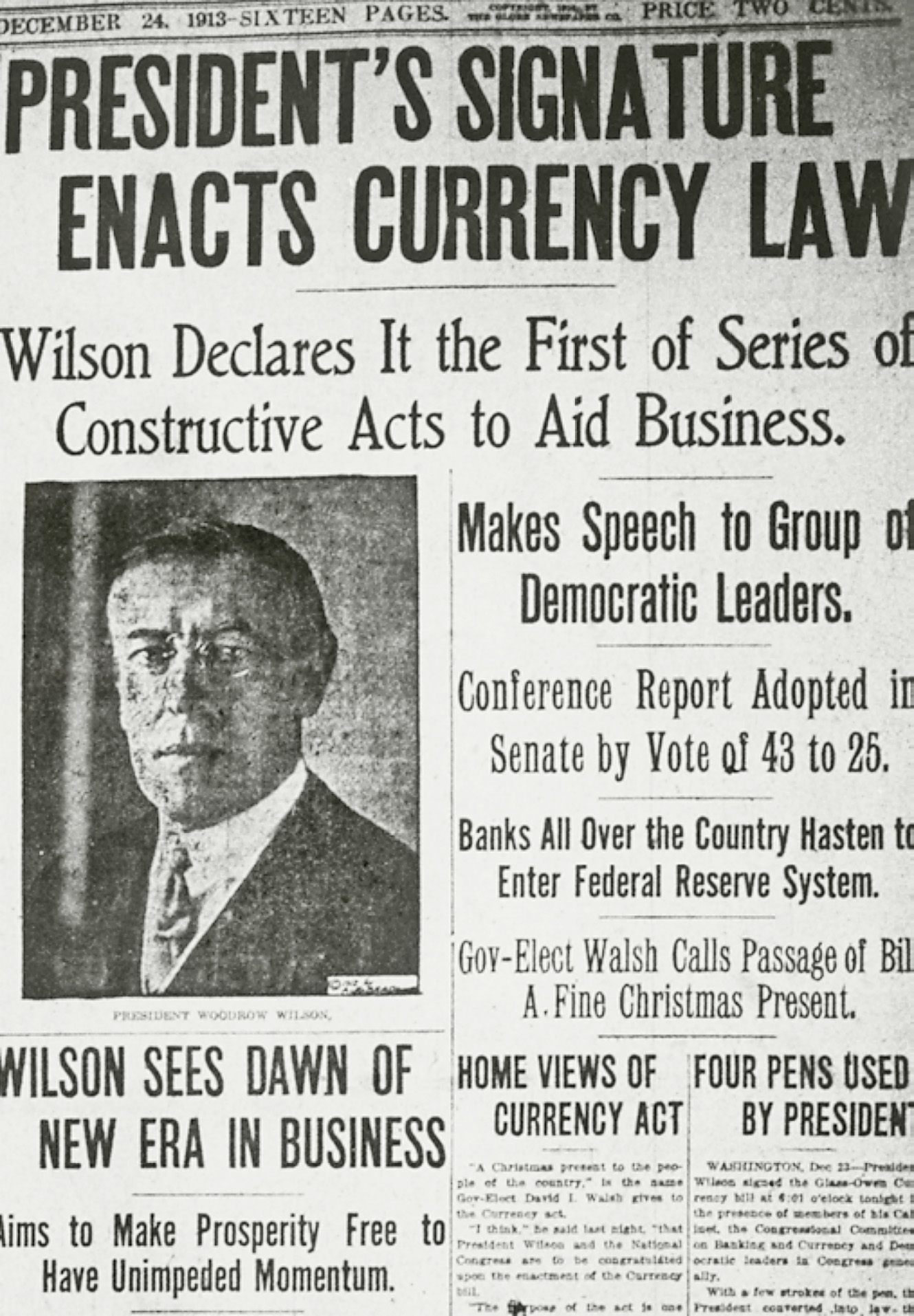 Description: Newspaper clipping USA, Woodrow Wilson signs creation of the Federal Reserve. Source: Date: 24 December 1913